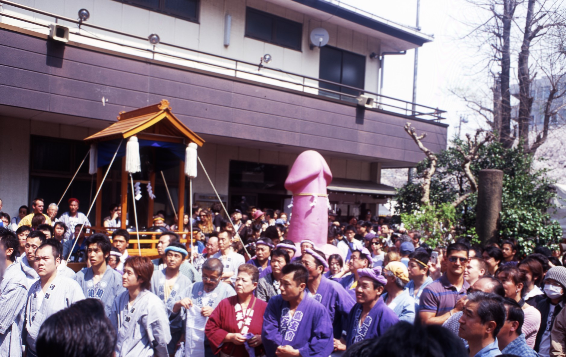 This is a cropped version of image in order to remove frames (which are discouraged on Wikipedia and to center the image a little on the point of the festival.